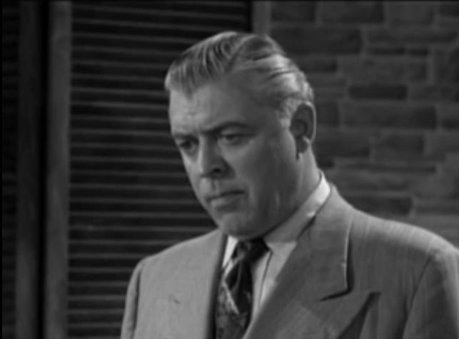 Lyle Talbot as Inspector Johns in Jail Bait